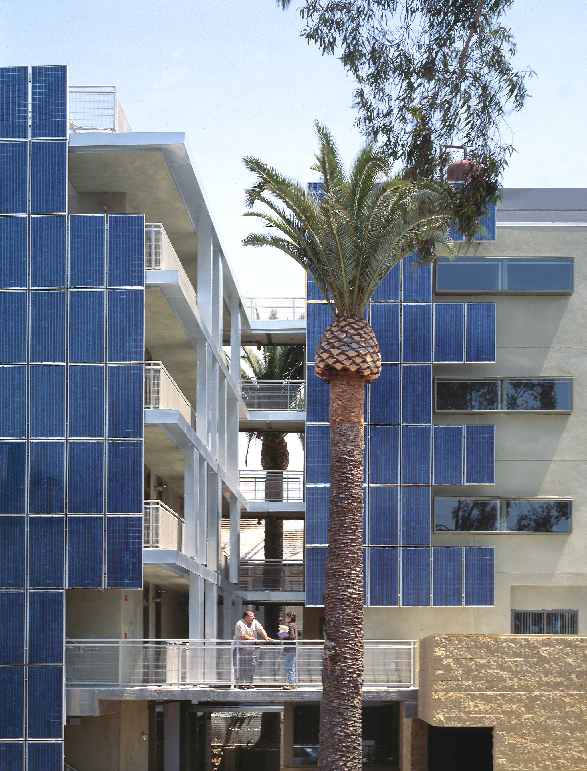 Solar cell panels at Colorado Court's entry — on the first LEED certified multi-family project in the USA. Colorado Court Affordable Housing — Santa Monica, Southern California. A 44 unit affordable housing project in downtown Santa Monica.